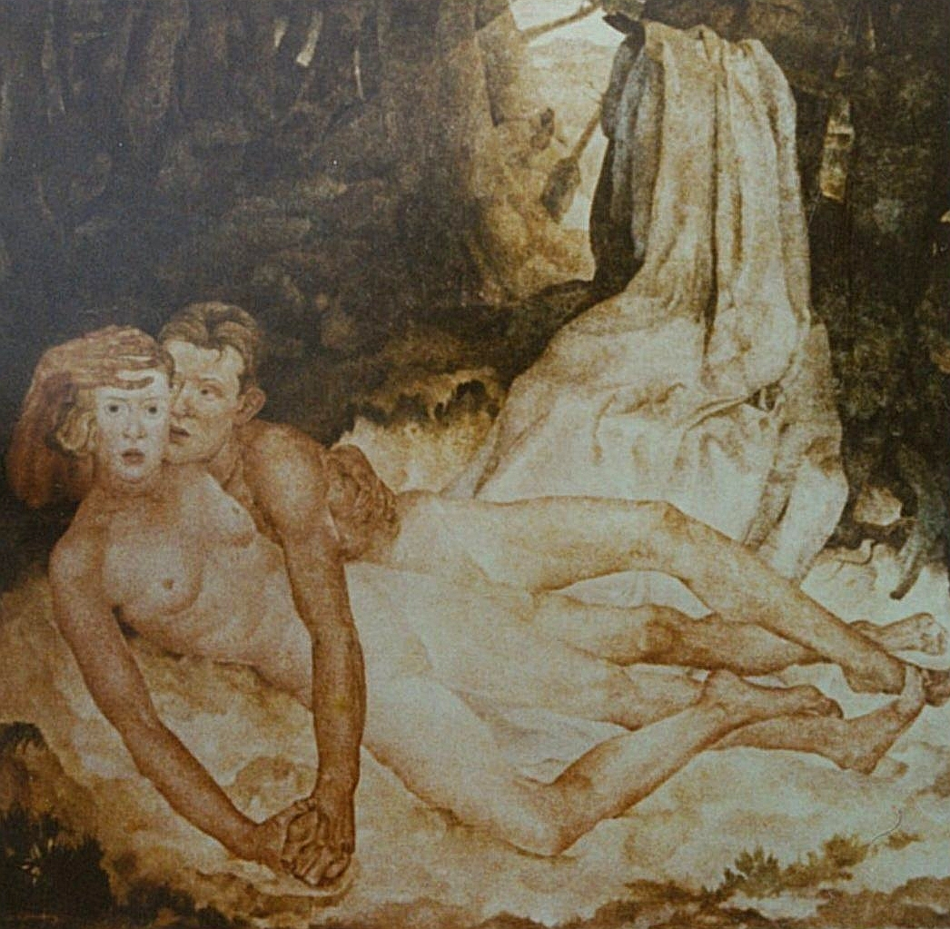 Oil painting Love (Liebe) by German artist Gustav Hilbert, 1923.